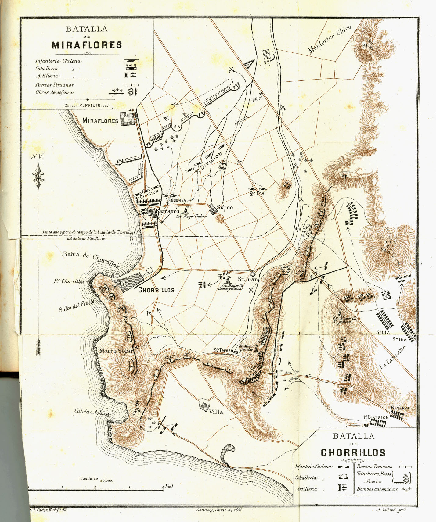 Batalla de Chorrillos